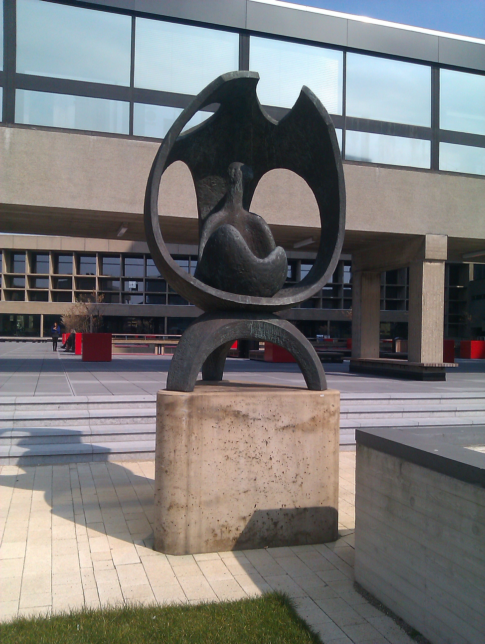 Frontview Lustrum sculpture by Ger van Iersel